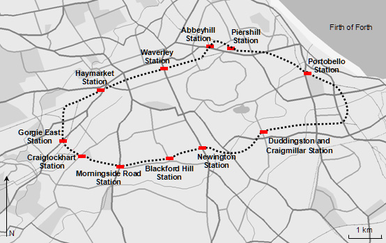 Map of the Edinburgh Suburban and Southside Junction Railway